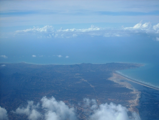 Far northeastern Macanao Peninsula and La Restinga Isthmus (Laguna de la Restinga National Park) — in Península de Macanao municipality. At the western end of Margarita Island (Isla Margarita), Nueva Esparta State, Venezuela.